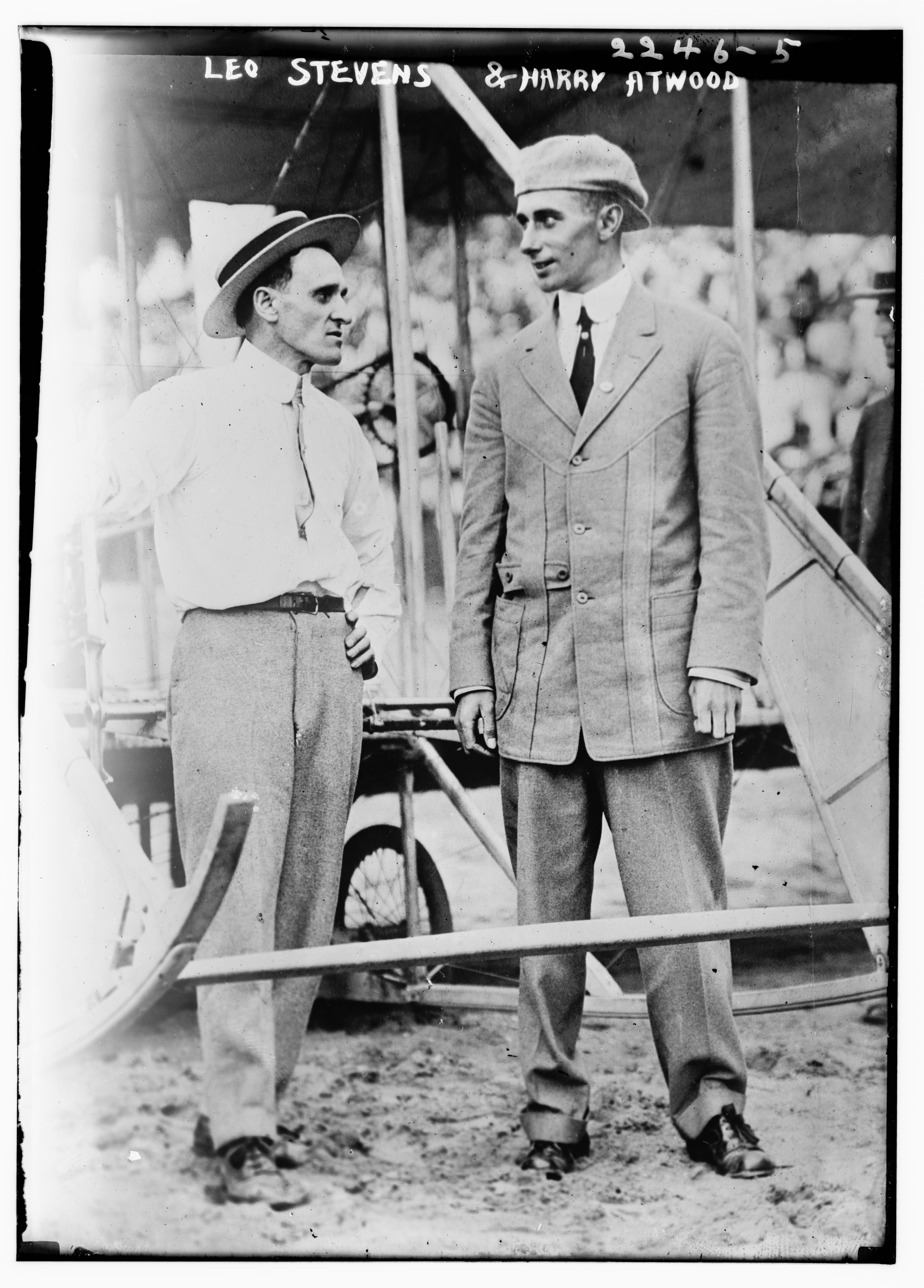 Leo Stevens & Harry Atwood (LOC) Bain News Service,, publisher. Albert Leo Stevens and Harry Nelson Atwood in 1911 [between ca. 1910 and ca. 1915] 1 negative : glass ; 5 x 7 in. or smaller. Notes: Title from data provided by the Bain News Service on the negative. Photo shows aviator Harry Nelson Atwood (1884-1967) with pilot Albert Leo Stevens (1873-1944). (Source: Flickr Commons project, 2009) Forms part of: George Grantham Bain Collection (Library of Congress). Subjects: Air pilots Format: Glass negatives. Repository: Library of Congress, Prints and Photographs Division, Washington, D.C. 20540 USA, General information about the Bain Collection is available at Persistent URL: Call Number: LC-B2- 2246-5